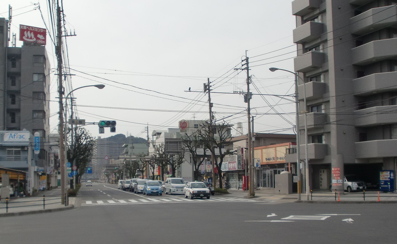 The end point of Kagoshima Prefectural Road Route 35, Takemachi Intersection in Kagoshima City, view towards Matsumoto